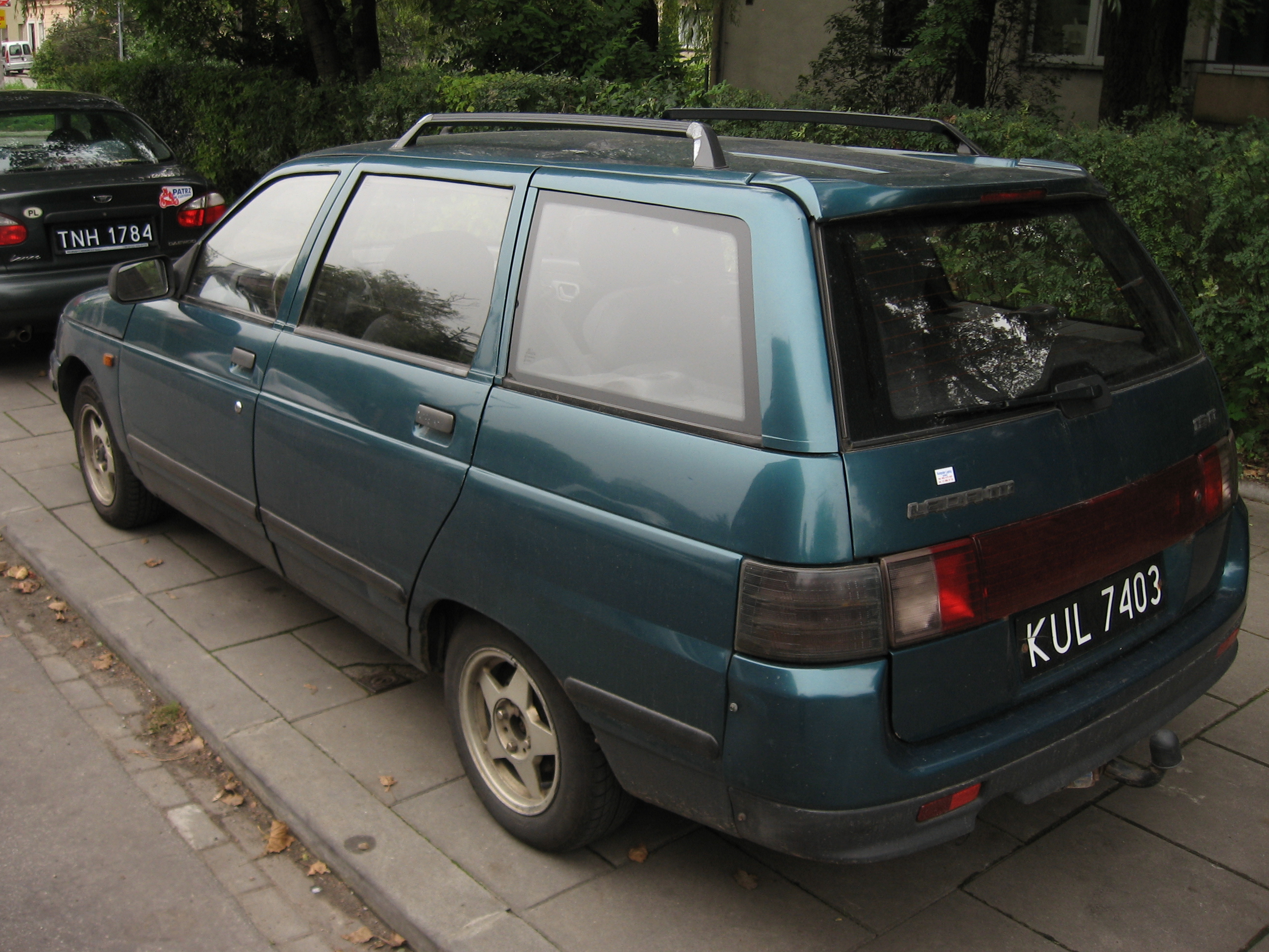 Green Lada 111 1,5 Li car in Kraków, Poland.